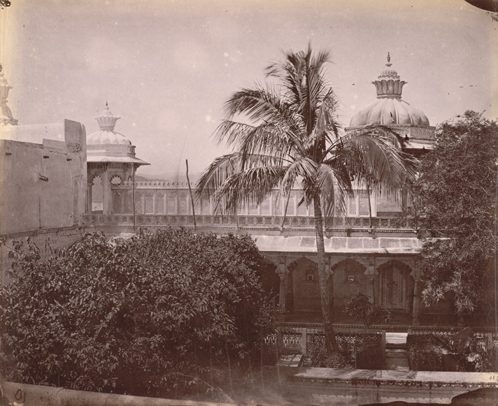 The Badi Mahal, City Palace, Udaipur